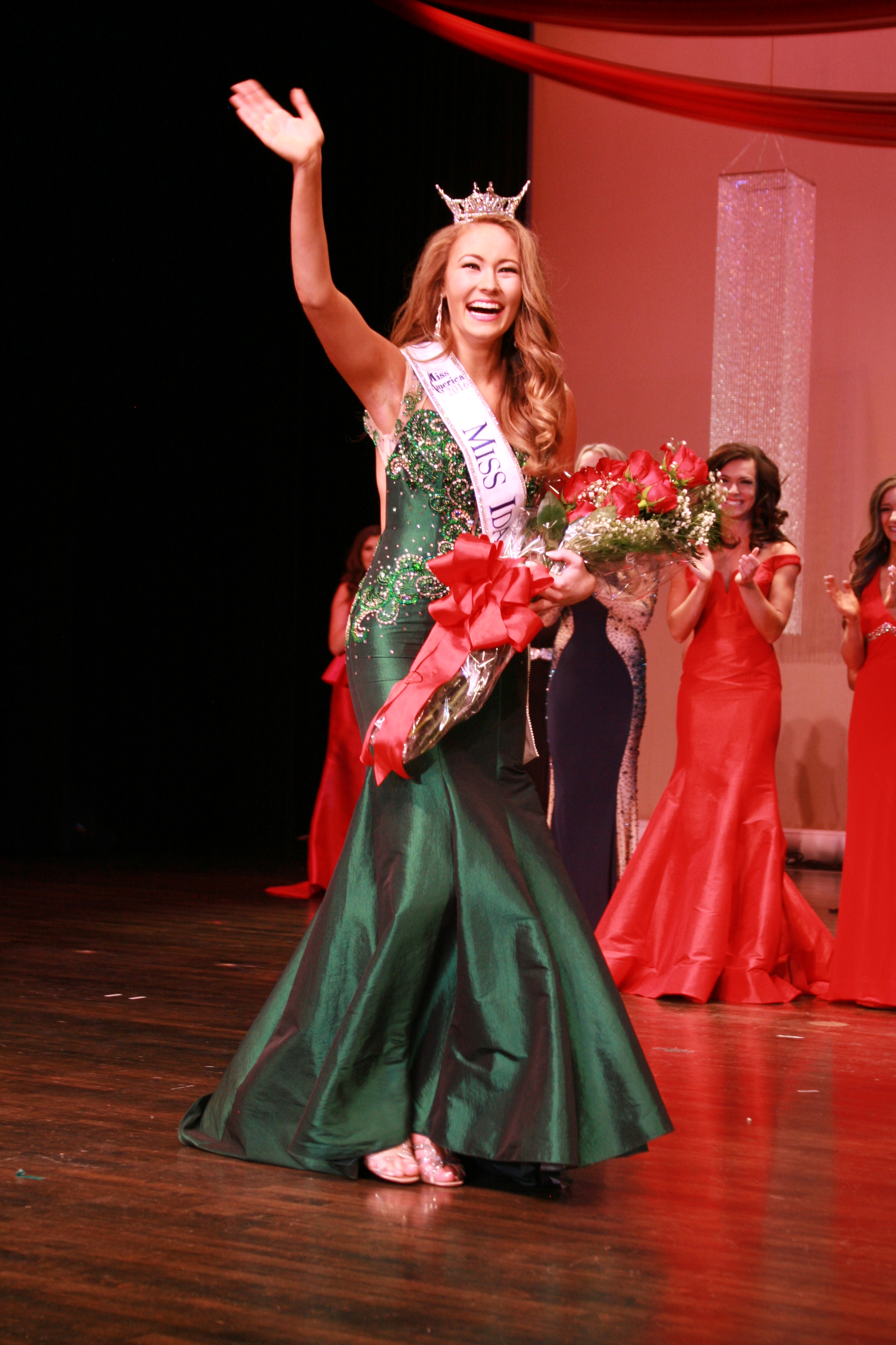 Miss Idaho America 2016, Kylee Solberg. Summer Hessing Photography